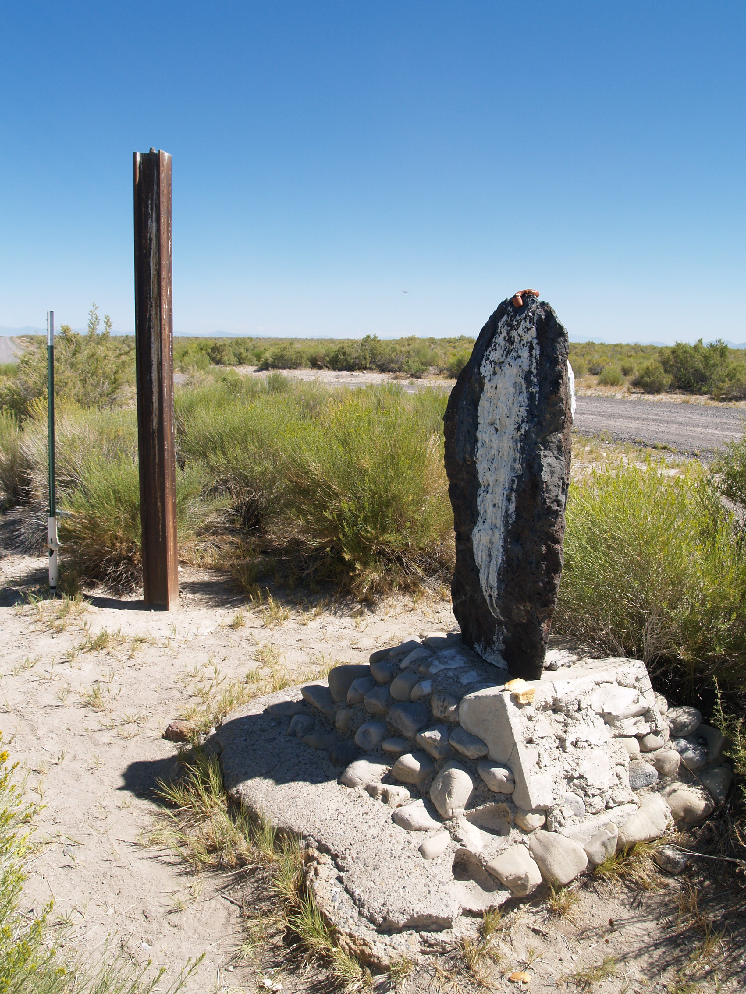 A photo of the small markers at the Gunnison "Massacre" site.